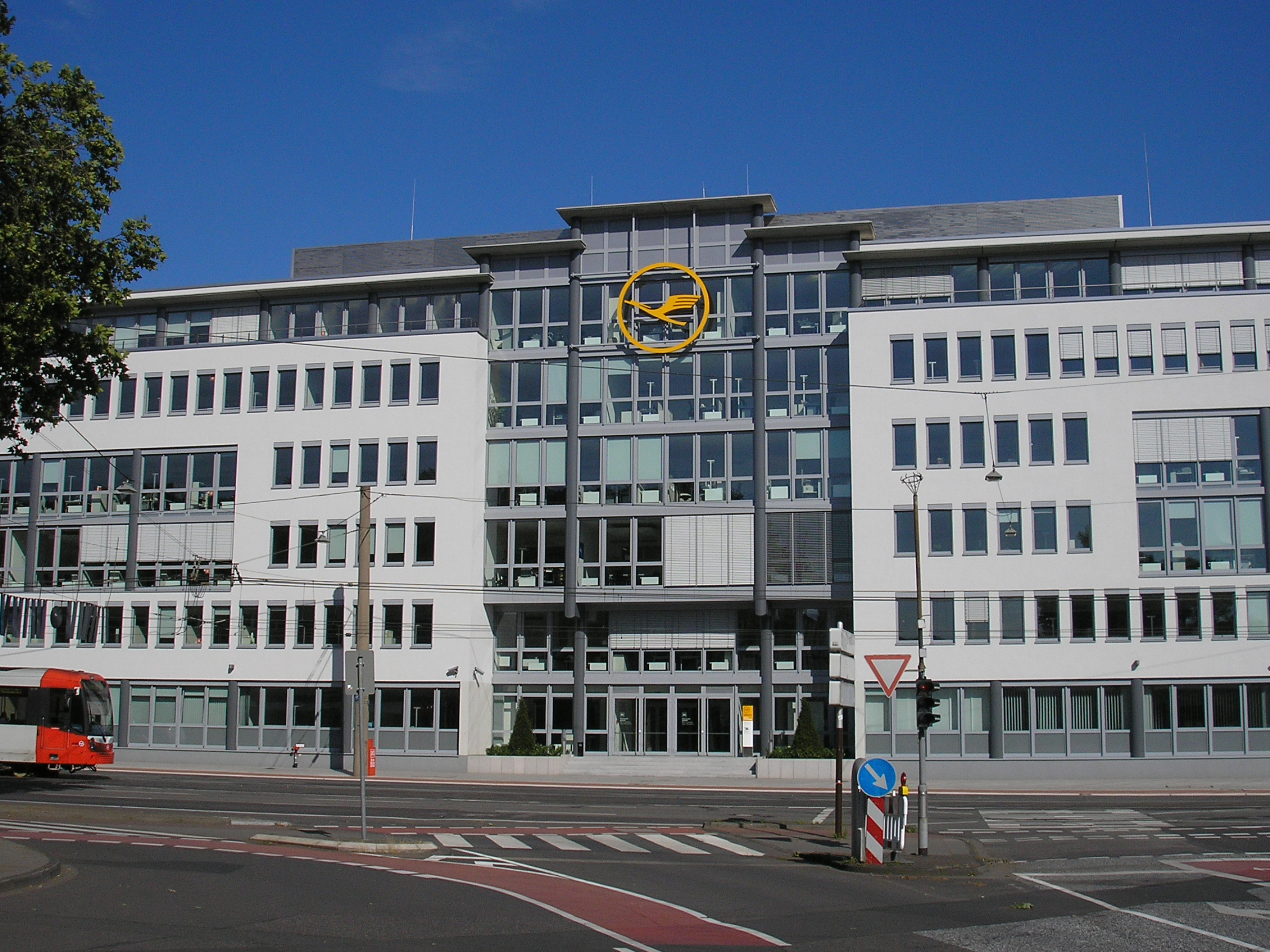 Headquarters of Lufthansa, Cologne